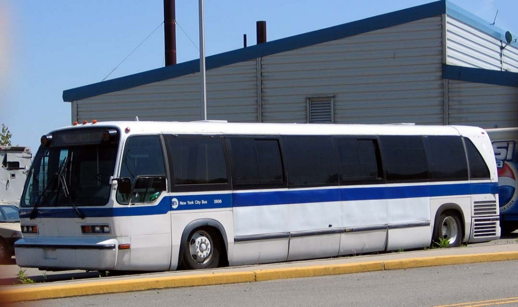 MaBSTOA 1982 GMC RTS T8J204 #2606 at the Staten Island Homeport on May 6, 2004. Photo by Michael Pompili